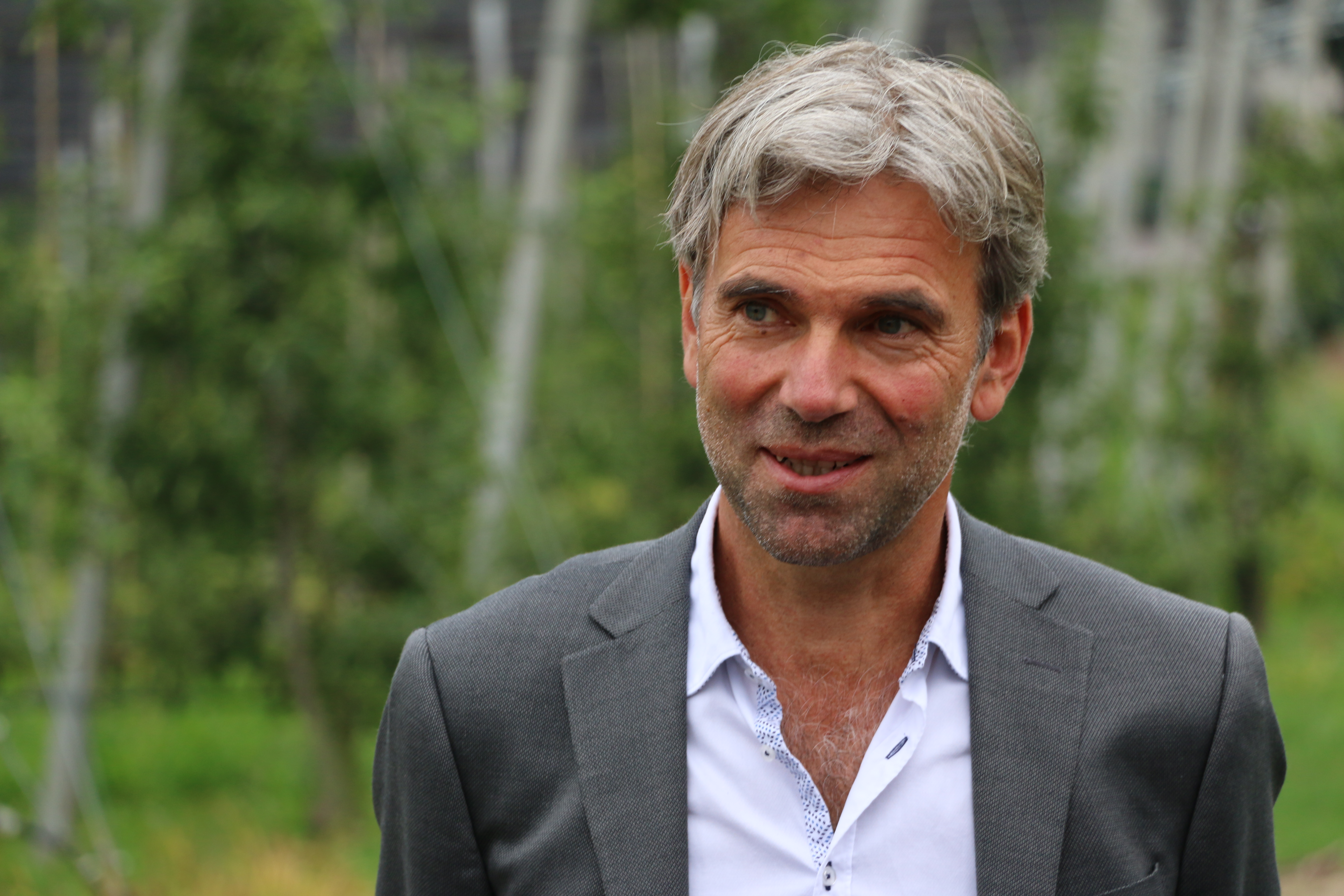 Arnold Schuler - South Tyrols Regional Minister for agricolture, forest, civil protection and municipality